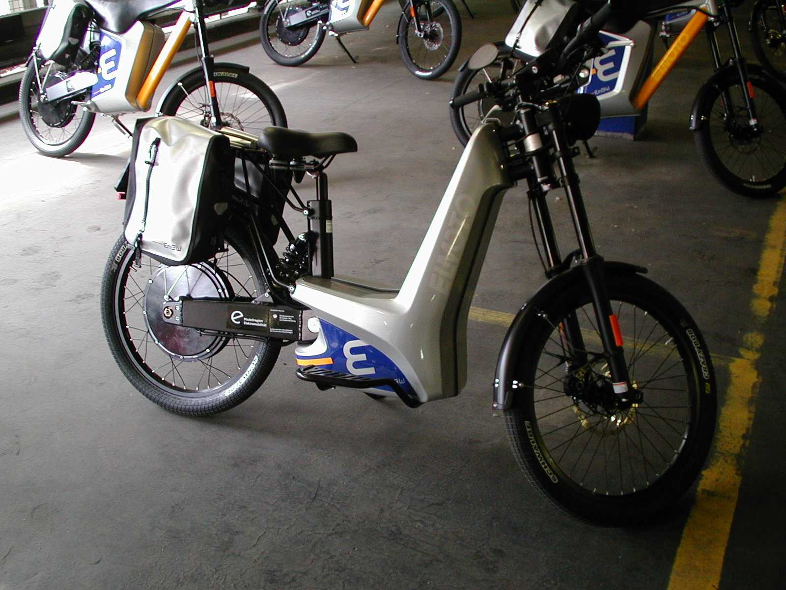 ELMOTO in the design of the test fleet of the EnBW scooter test. This is the second model named TE-2. It has the simple saddel and more options for luggage.